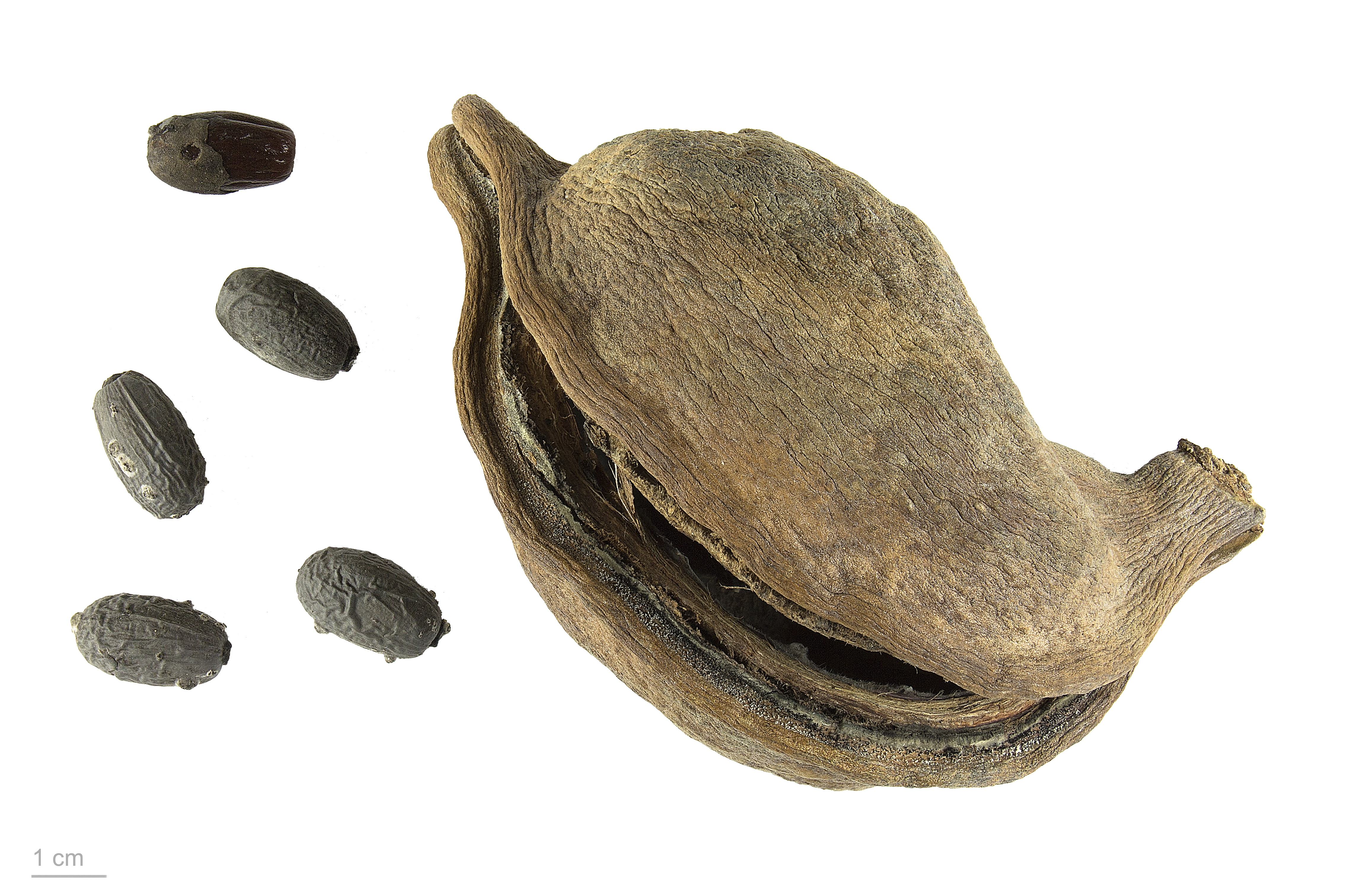 Sterculia foetida, bastard poon tree, seeds